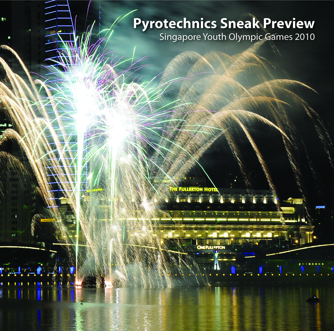 The closing ceremony of the Singapore Youth Olympic Games in 2 days time (26 August) promises yet another dazzling show at Marina Bay. After this event, fasten your seat belt as 2010 Formula 1 night racing will be next on the cue...